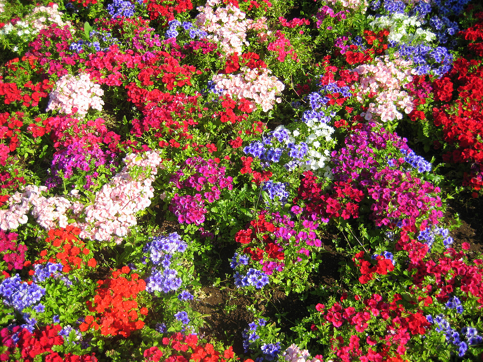 Colorful flowers